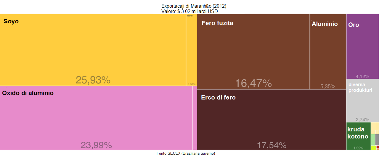 Translation to Ido of a similar drawing, originally written in Portuguese.